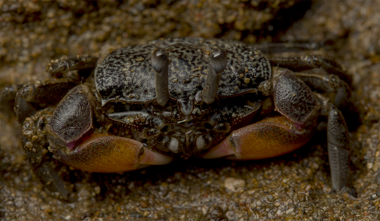 A juvenile Heloecius cordiformis.